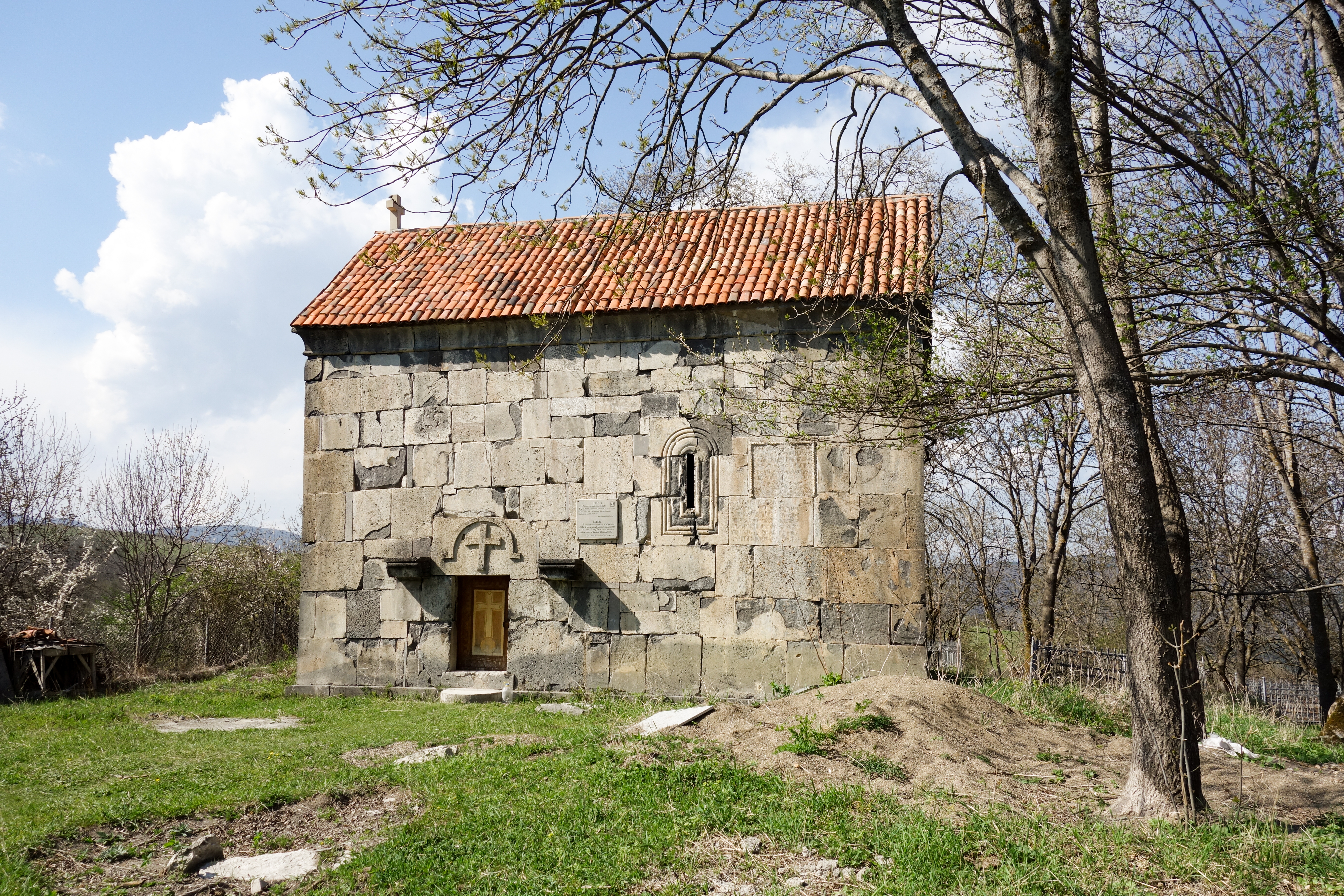 Abelia Church (XIII c.), Abeliani, Kvemo Kartli, Georgia